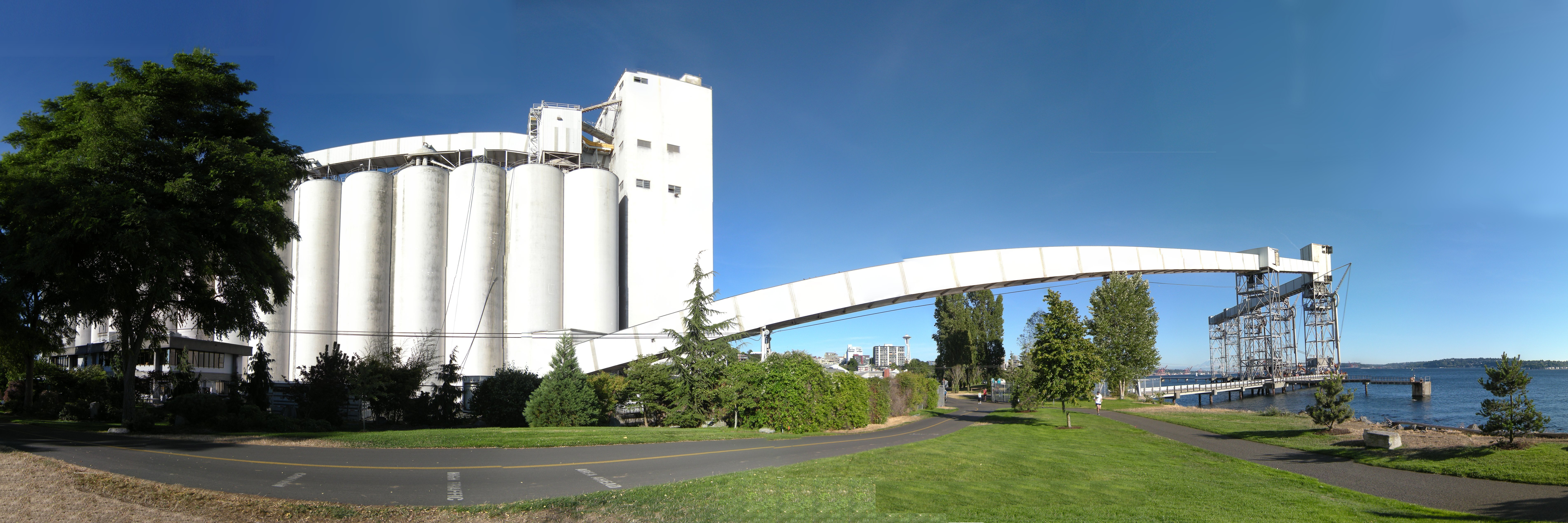 Grain terminal on Seattle's waterfront, This is a panoramic stitched together with HugIn from about 20 photos, then cleaned up with GIMP. This image was created with Hugin